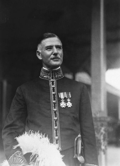 Portrait of J. Tideman, governor of Maluku, on Queen's Day